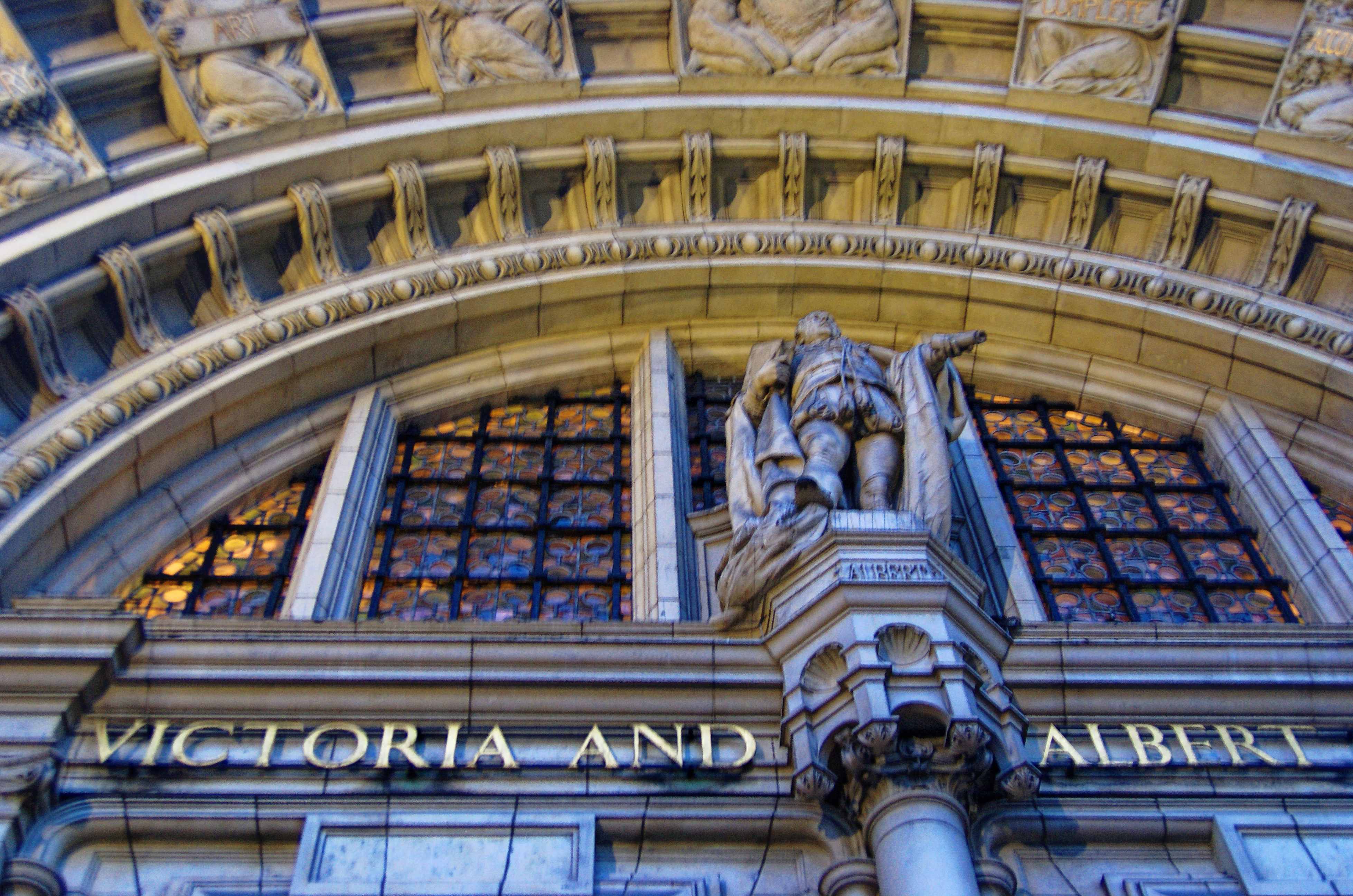 London - Cromwell Gardens - Victoria & Albert Museum